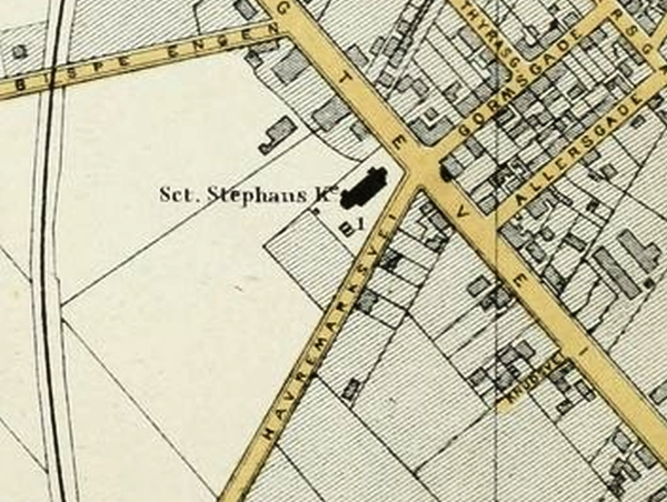 A map detail showing Havremarksvej - now Stefansgade - in the Nørrebro district of Copenhagen. Denmark. The map is from after Stefanskirken was built in 1874 and before the street name was changed in 1880.